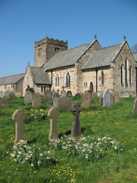 St Mary's Church, Kilburn A Victorian rebuild of a largely Norman church, in an attractive village below the Hambleton Hills.